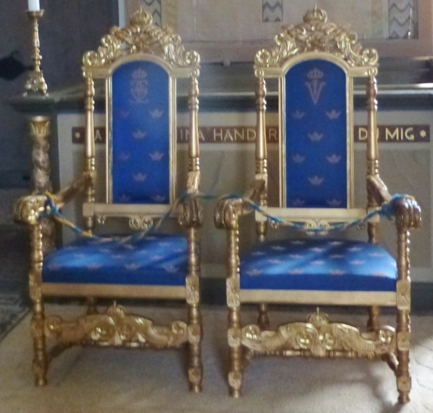 The Royal chairs in Räpplinge kyrka in Sweden